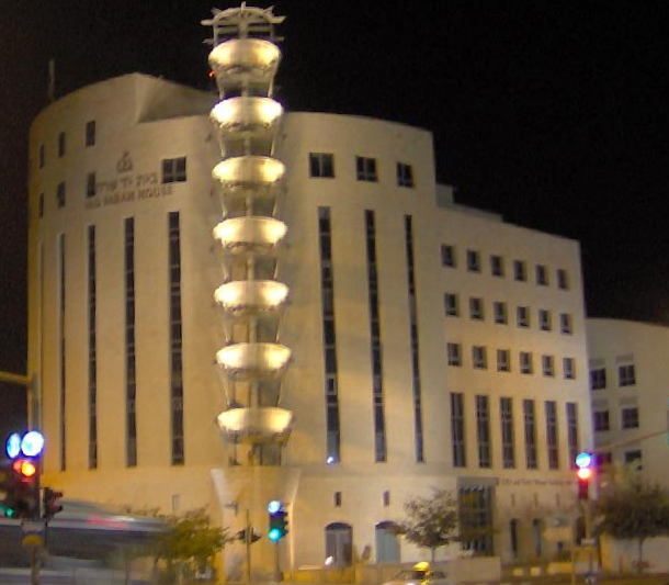 Yad Sarah center, Jerusalem